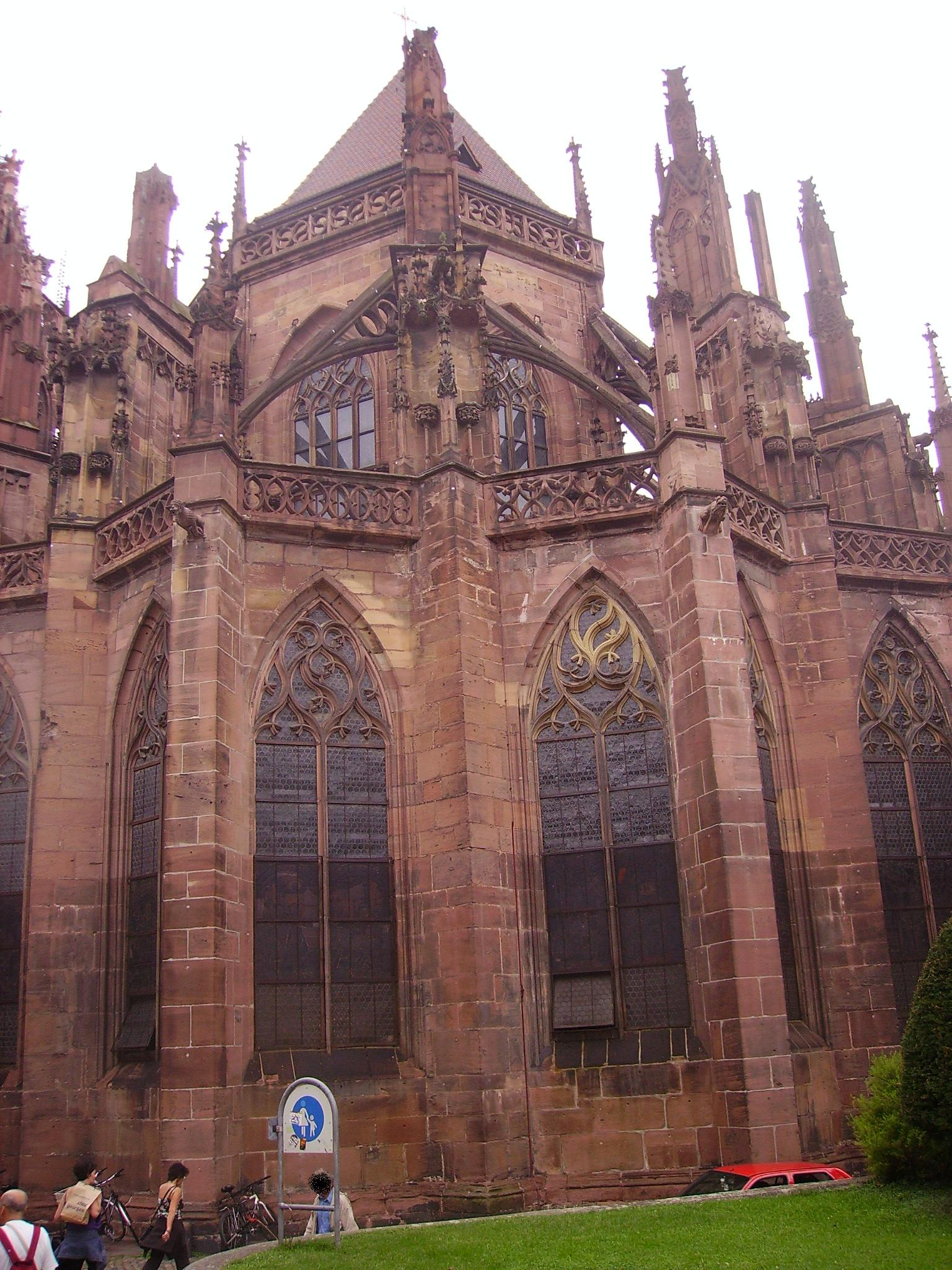 Chevet of the catholic Cathedral/Minster of Our Lady, Freiburg im Breisgau